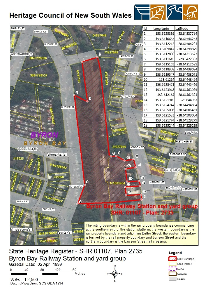 Byron Bay railway station: SHR Plan No 2735